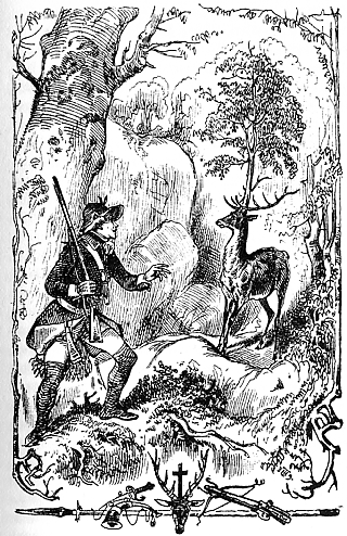 Series of 16 illustrations for Münchhausen by Gottfried August Bürger.